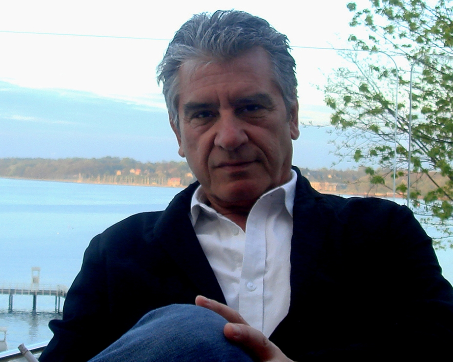 Arturo Franco Taboada, Dr. Architect and novelist